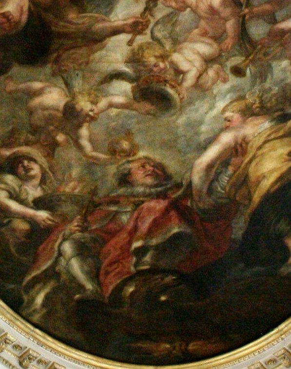 Ceiling of the Banqueting House, Whitehall, London, painted by Rubens. Detail of King James being borne to heaven by angels.